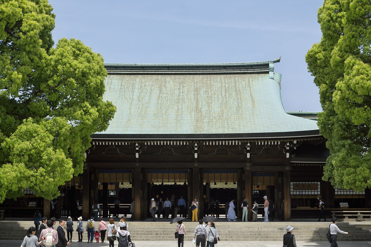 Meiji Shrine Shibuya, Tokyo.